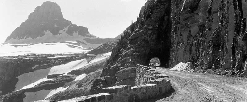 Glacier National Park, Montana, USA. East tunnel of the Going to the Sun Road, shortly after building of the road